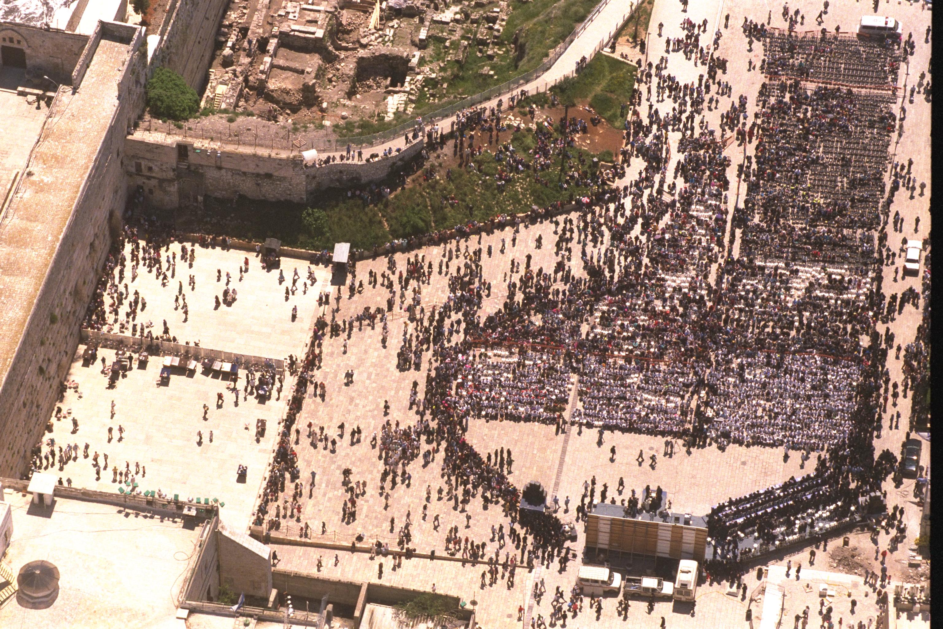 A Bar Mitzvah celebration at the Western Wall for 1,000 Russian immigrant children organized by the Gutnick Center. צילום אויר של חגיגות בר המצוה שנערך על ידי מרכז גוטניק ליד הכותל המערבי בירושלים ל 1000 ילדי עולים מברית המועצות. Photo: Moshe Milner (1946–) Alternative names Miylner, Moše; Milner, Mosheh; Moshé Milner; Milner, M.; Mîlner, Moše; Miylner, MošehDescriptionIsraeli photographerצלם ישראליDate of birth 1946 Location of birth Germany Authority control : Q28750411 VIAF: 100999744 ISNI: 0000 0001 0804 0507 LCCN: n82072104 GND: 115699732 BNF: 15548788n WorldCat creator QS:P170,Q28750411 , 04/06/1995